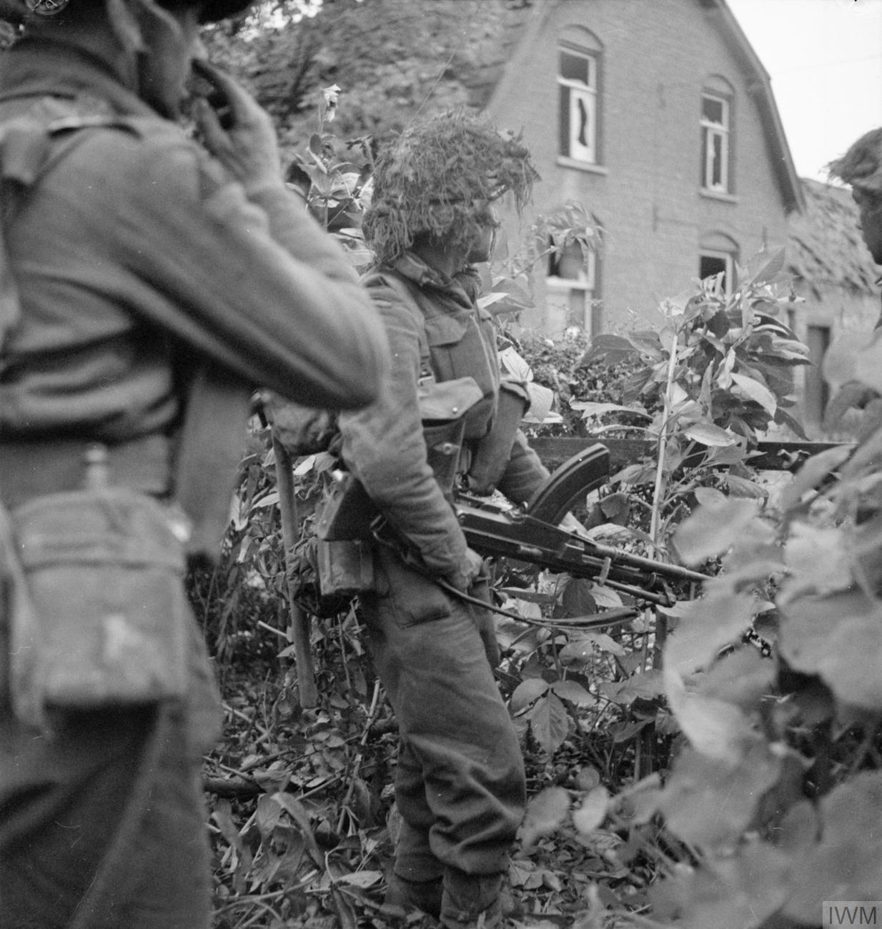 The British Army in North-west Europe 1944-45 Men of the 2nd East Yorkshire Regiment clearing houses in Venraij, 17 October 1944.